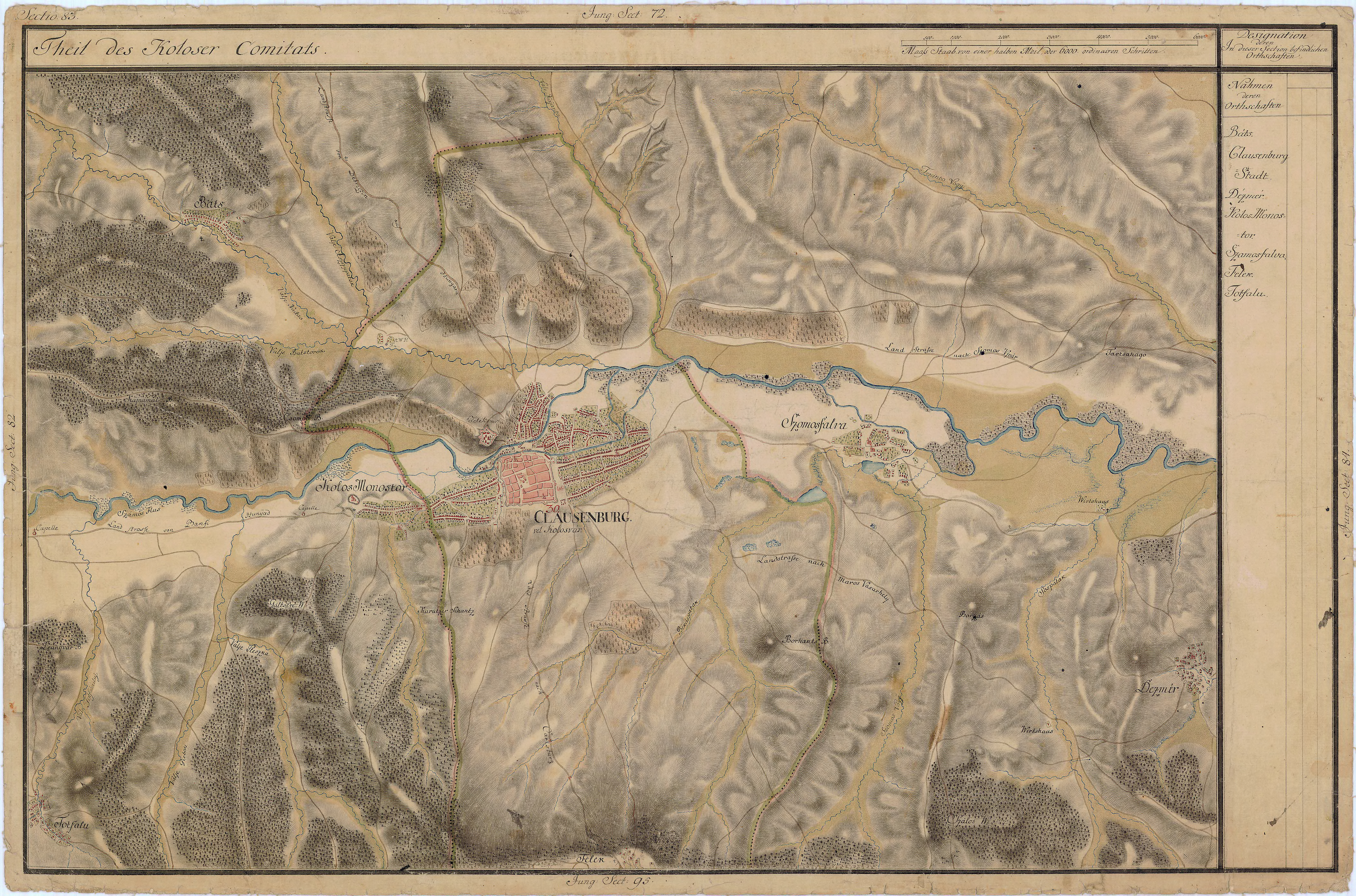 Grand Duchy of Transylvania, 1769-1773. Josephinische Landaufnahme pg.083Română: Harta Iosefină a Transilvaniei, 1769-1773. Josephinische Landaufnahme pg.083